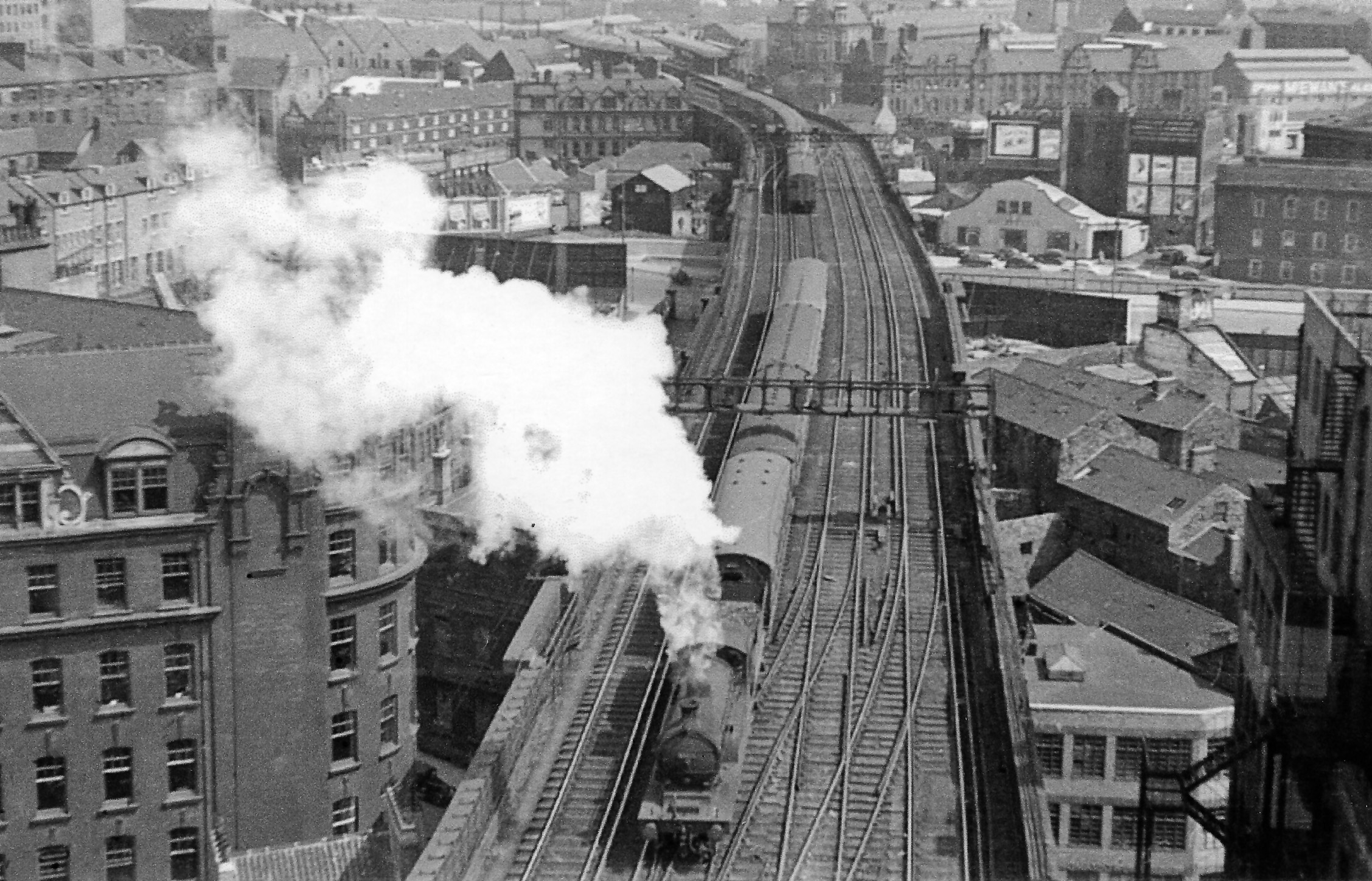 Up train from Alnmouth, trailed by a local Electric, approaches Newcastle Central from Manors. View northwards from the Castle Keep, towards Berwick-on-Tweed on the ex-North Eastern ECML and Tynemouth on the Electric lines. The train from Alnmouth, headed by D20 4-4-0 No. 62375, is pulling into Newcastle Central while just behind an electric train is held at the signals. Manors Station is seen in the distance.